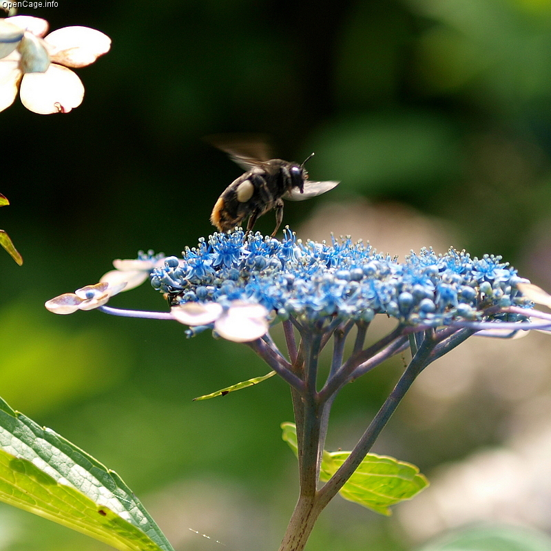 Bombus ignitus on flower